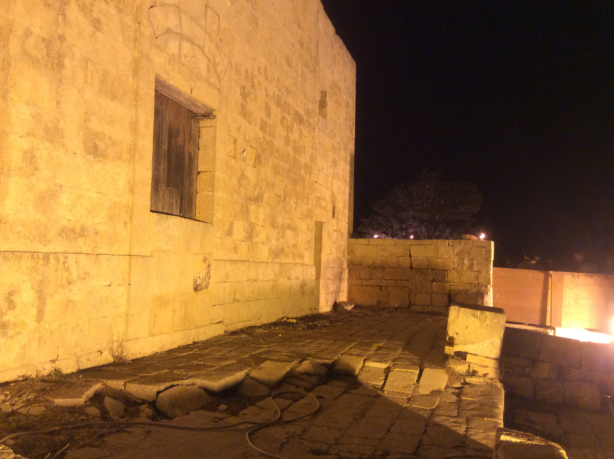 Laferla Cross This media is about Maltese cultural property with inventory number 02166.